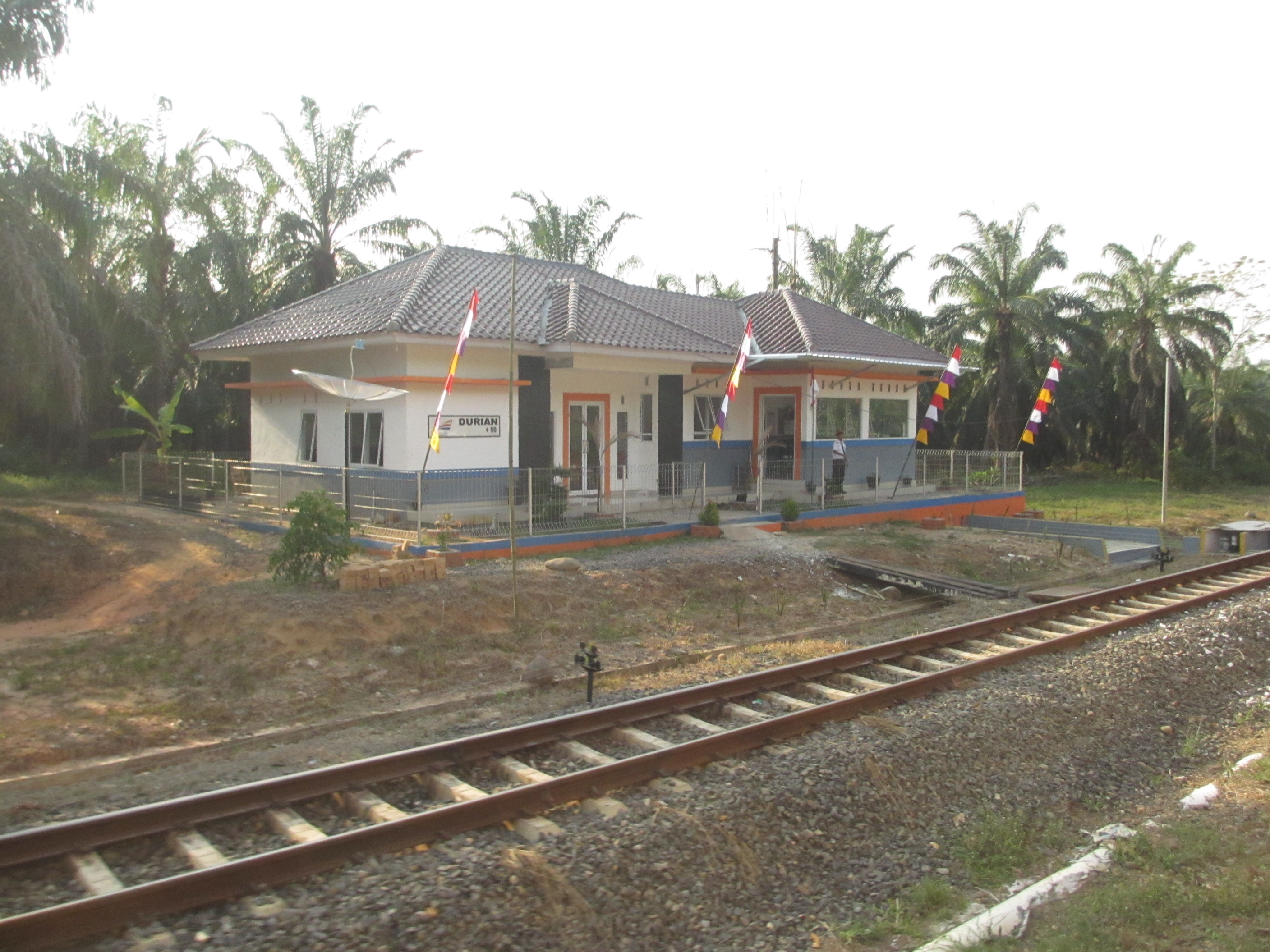 Durian Railway Station.